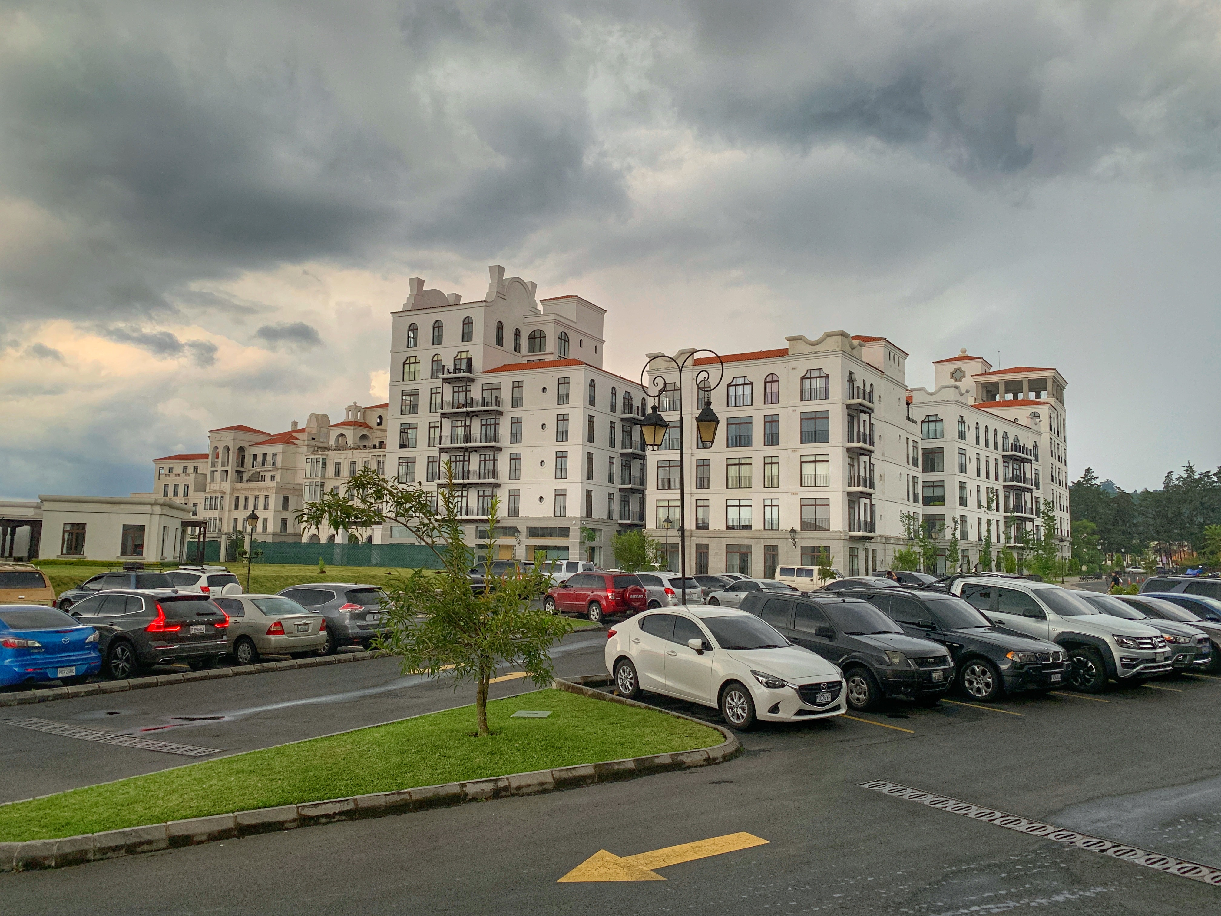 Ciudad Cayala Zona 16, Ciudad de Guatemala